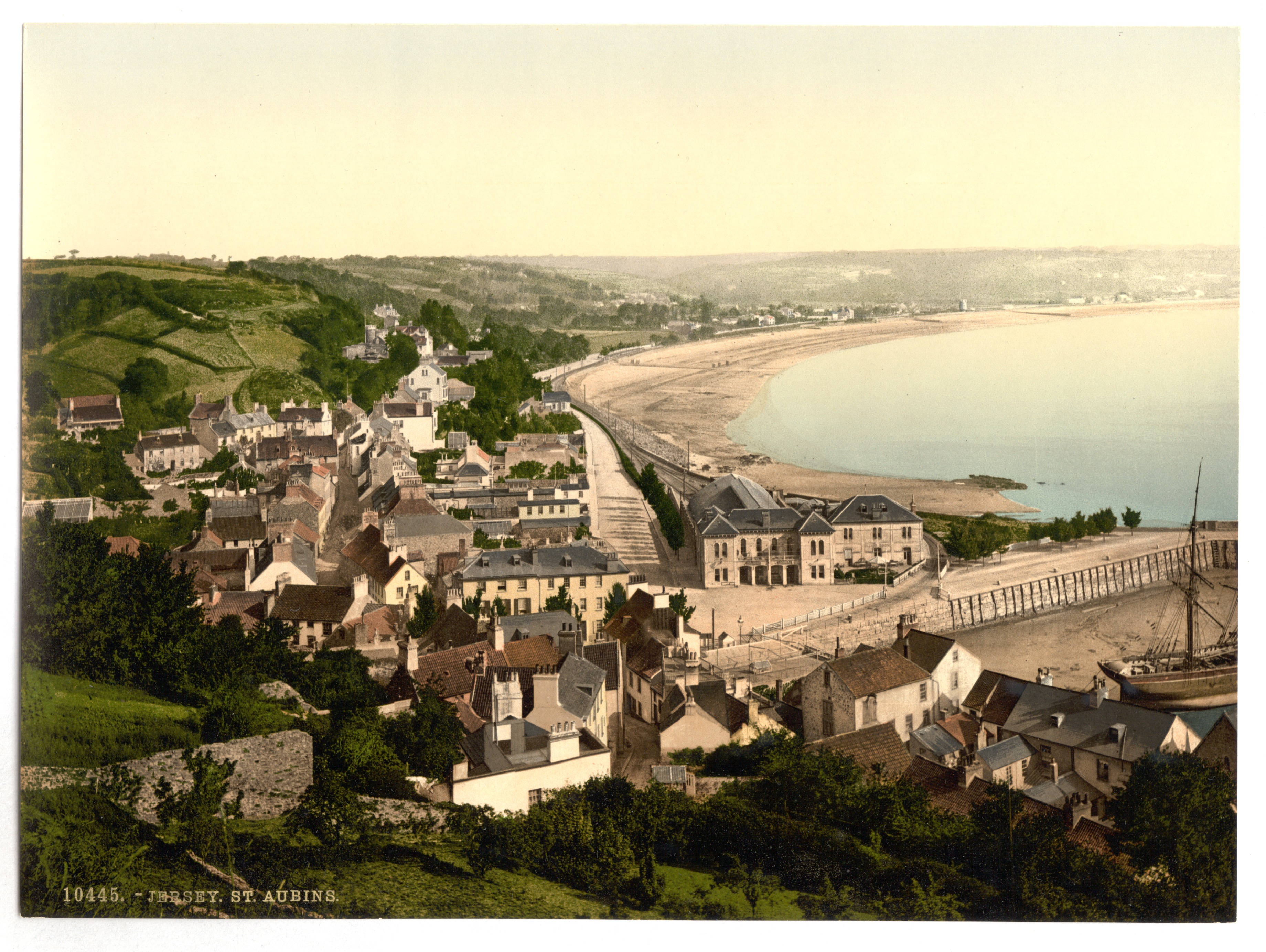 Print no. "10445".; More information about the Photochrom Print Collection is available at Forms part of: Views of the British Isles in the Photochrom print collection.; Title from the Detroit Publishing Co., Catalogue J-foreign section, Detroit, Mich. : Detroit Publishing Company, 1905.